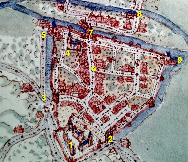 16th-century map of Valkenburg by Jacob van Deventer with Valkenburg Castle (1), Berkelpoort (2), Grendelpoort (3), parish church (4), Den Halder (5), Grotestraat (6), Geulpoort (7), bullwark Palanka (8) and Geul bridge (9).